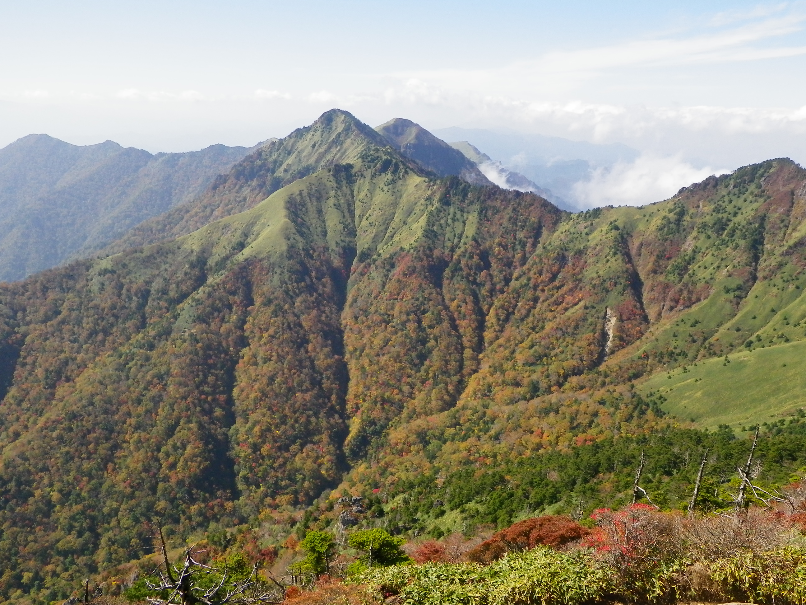 The east side of Mount Ninomori as seen from Mount Ishizuchi in Shikoku, Japan.